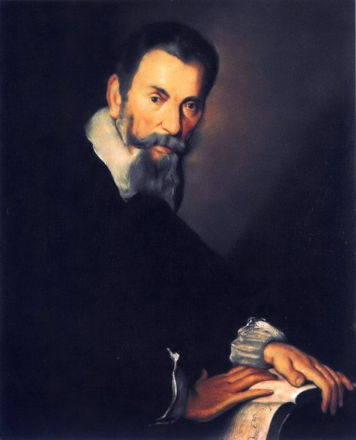 Copy of a portrait of Claudio Monteverdi by Bernardo Strozzi, hanging in the Gallerie dall'Accademia in Venice (1640).